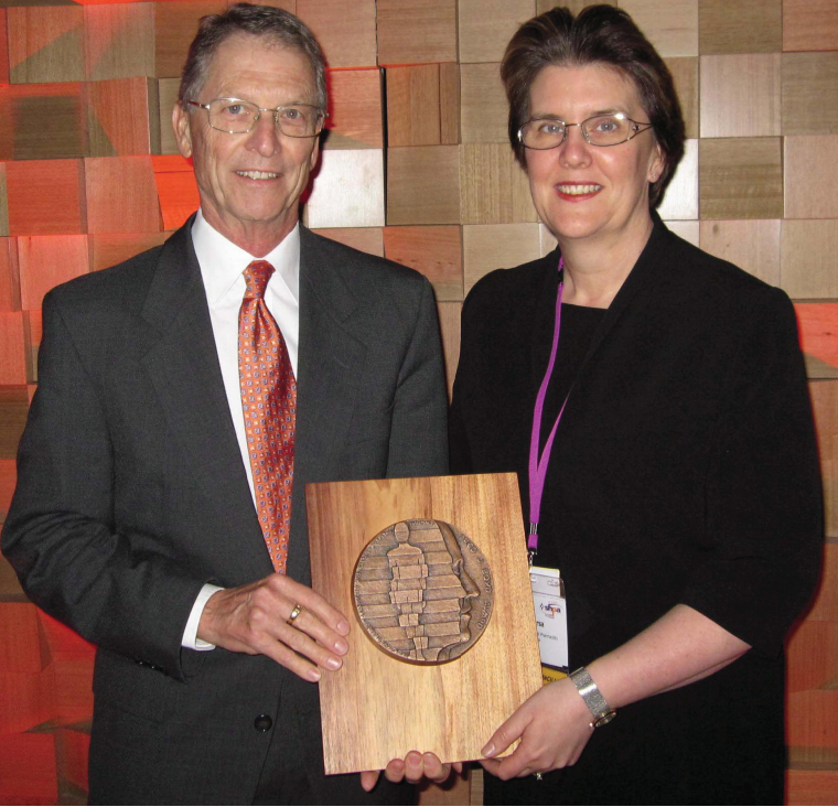 Bill Thomson recipient of the Fred J Boyd Award 2011 with Sue Kirsa (SHPA Federal President)